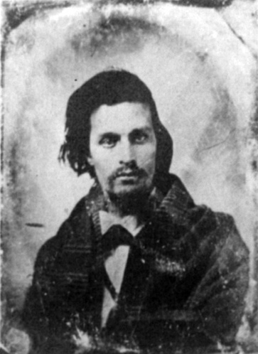 Richard Realf, English poet who traveled across the United States